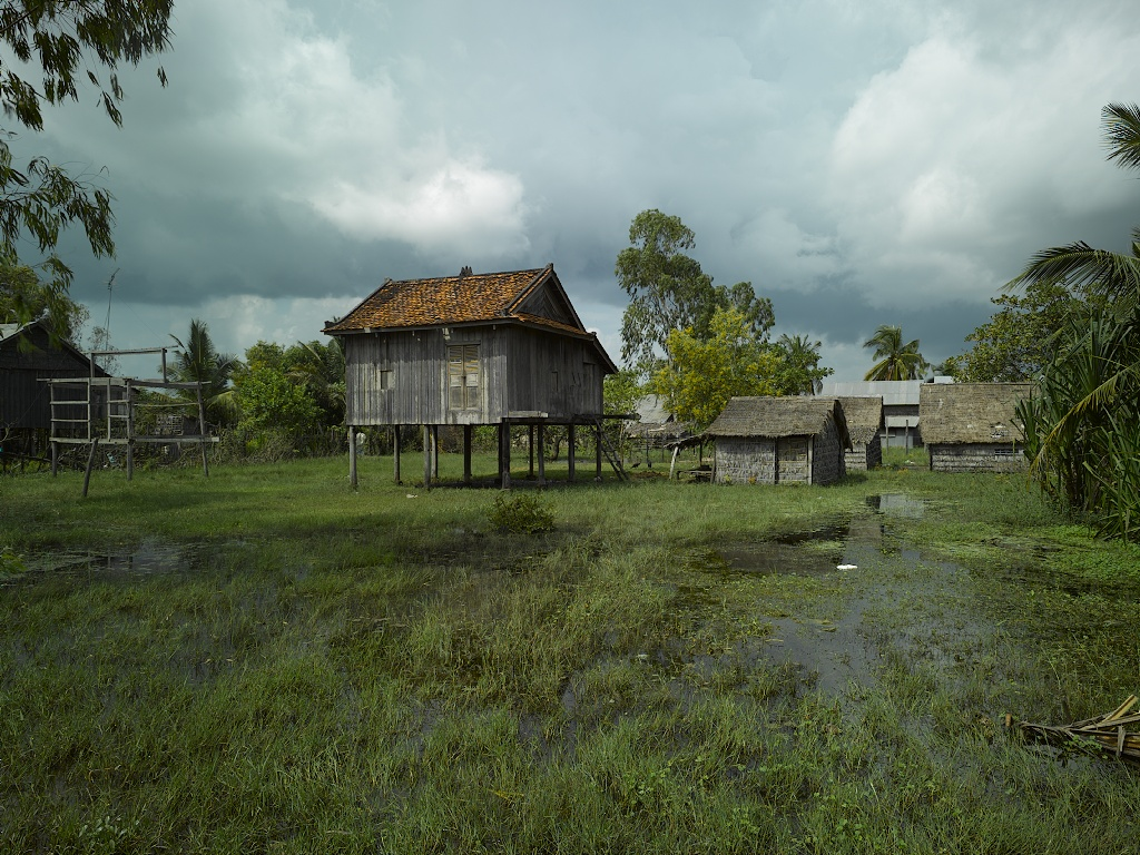 House